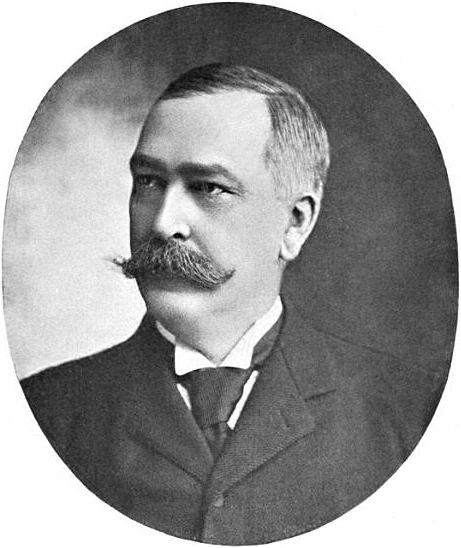 Photograph of Ohio Columbus (O.C.) Barber appearing in The Successful American in 1901.